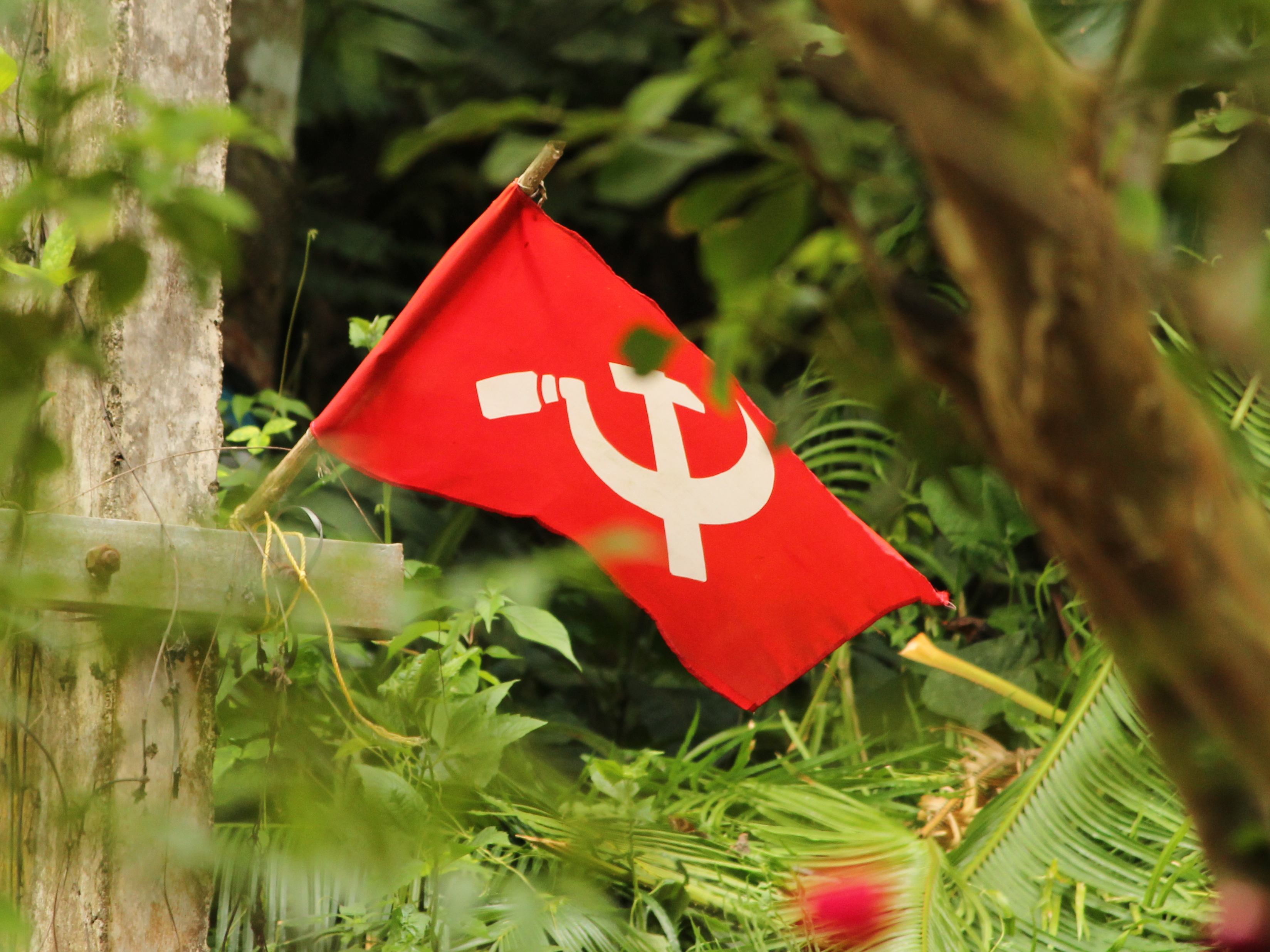 A communist flag. Picture taken from Kottayam, Kerala, India.